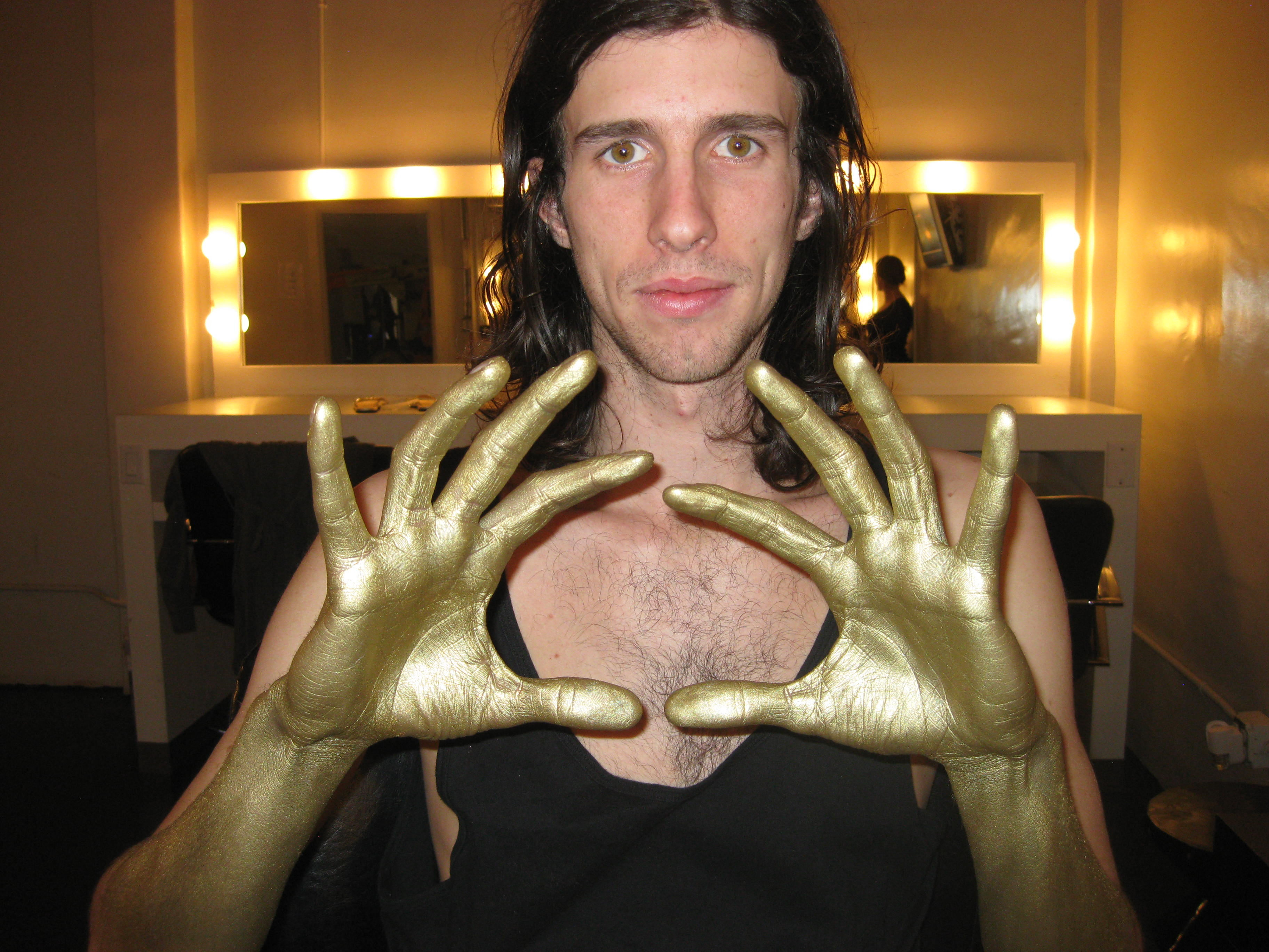 3OH!3 Streets of Gold Album Cover Photo Shoot